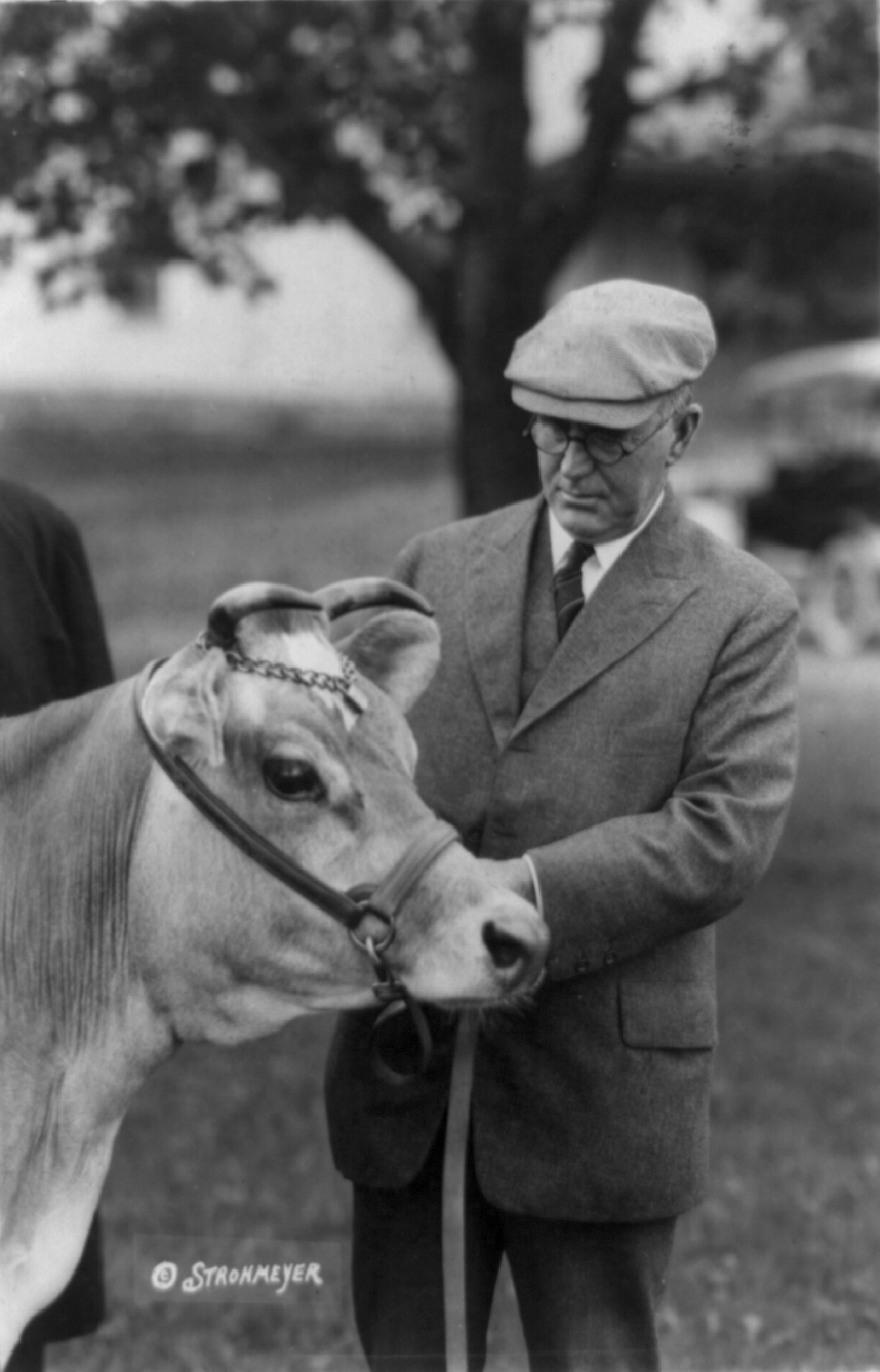 Henry Cantwell Wallace, three-quarter length portrait, standing, looking at Fern's Oxford Triumph, a cow.